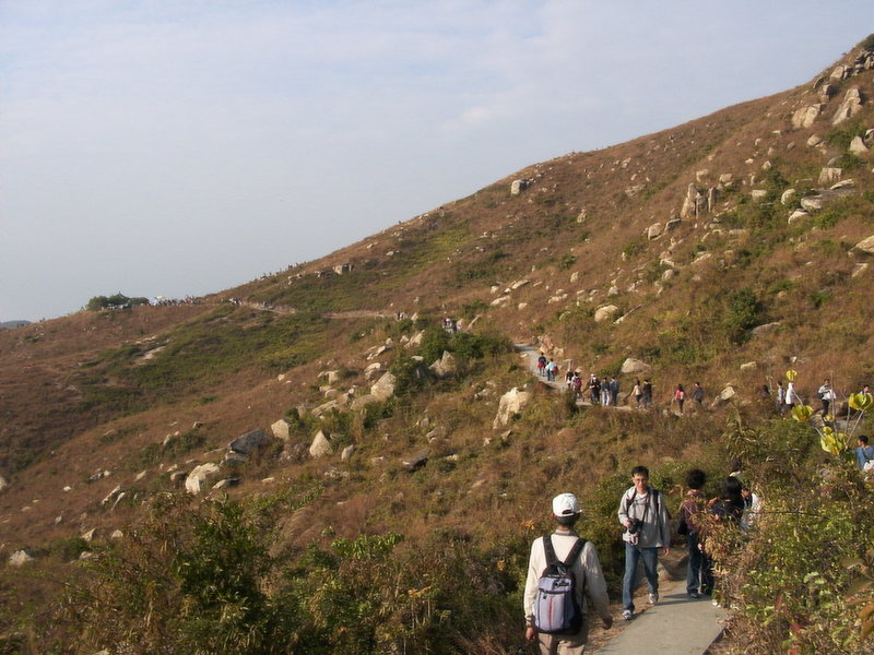 Photograph taken by VirtualSteve.Images